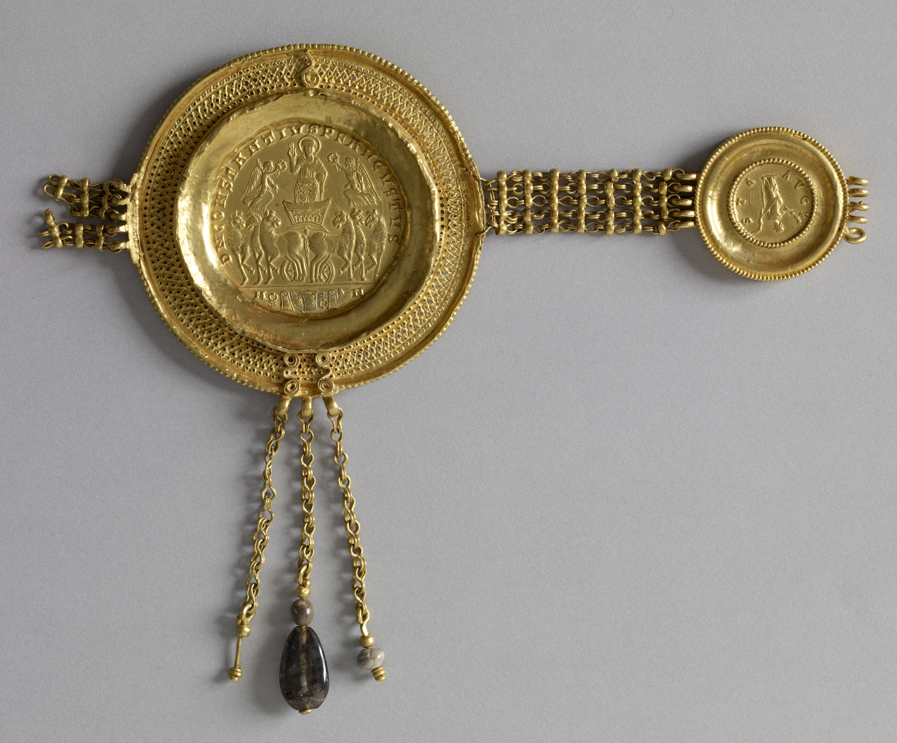 Imperial medallions, such as this one of Constantius II (reigned 350-361), were often mounted by their recipients to boast of their highly favored status in society. This stunning example, minted in Nicomedia (Asia Minor), represents on the reverse the triumphant emperor in his chariot. Smaller coins were also mounted as jewelry, like the smaller aureus honoring Galeria Faustina (died 140/141), wife of Antoninus Pius. Other mounted coins, separated by lengths of chain, would have completed this section of either a belt or a necklace.